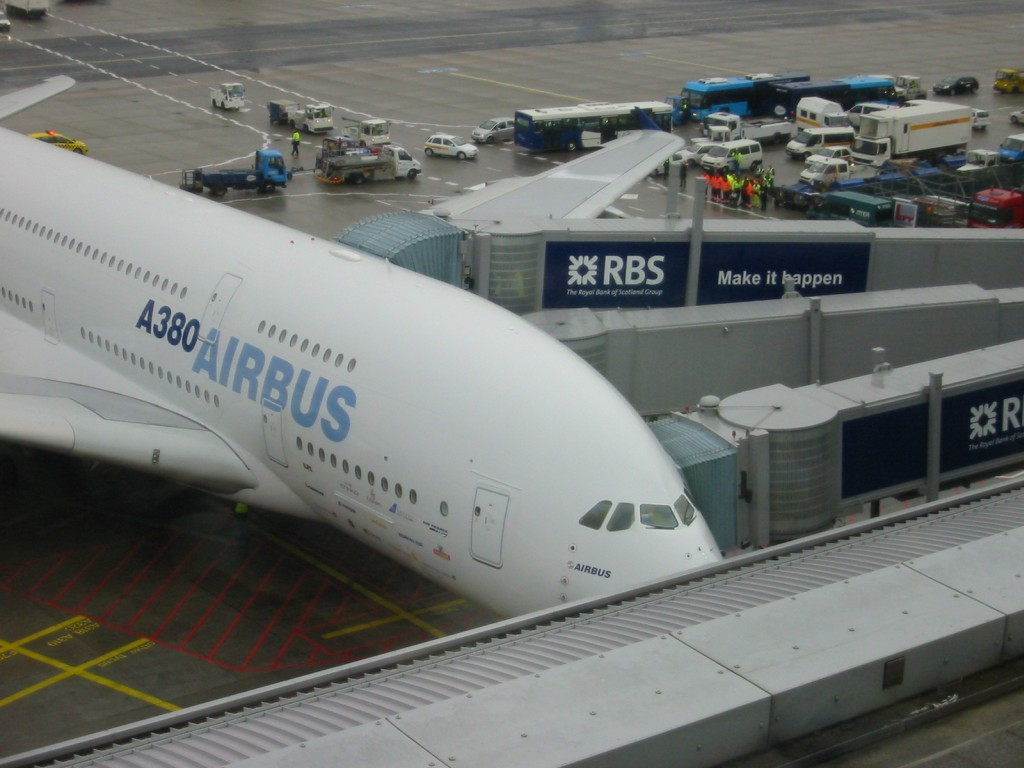 Airbus A380 at Frankfurt airport